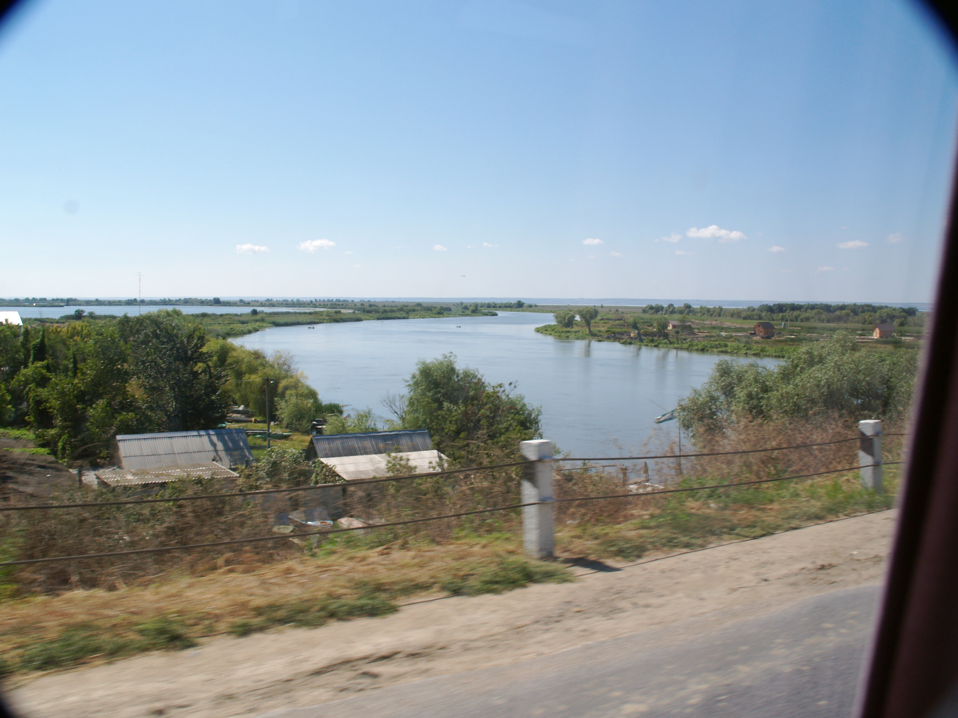 View from Ukrainian road M15 towards the village of Palanca, Ştefan Vodă district, Moldova